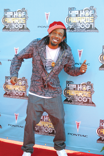 Big Gipp at the BET Hip Hop Awards in Atlanta. October 14, 2007. Photo by Travis Hudgons/PictureAtlanta.Net